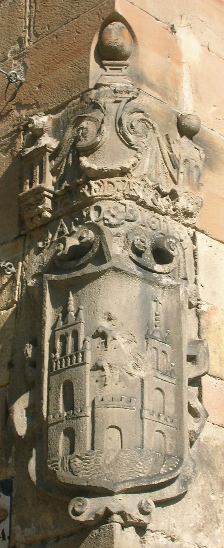 Stone relieve: Coat of arms of the villa of Durango